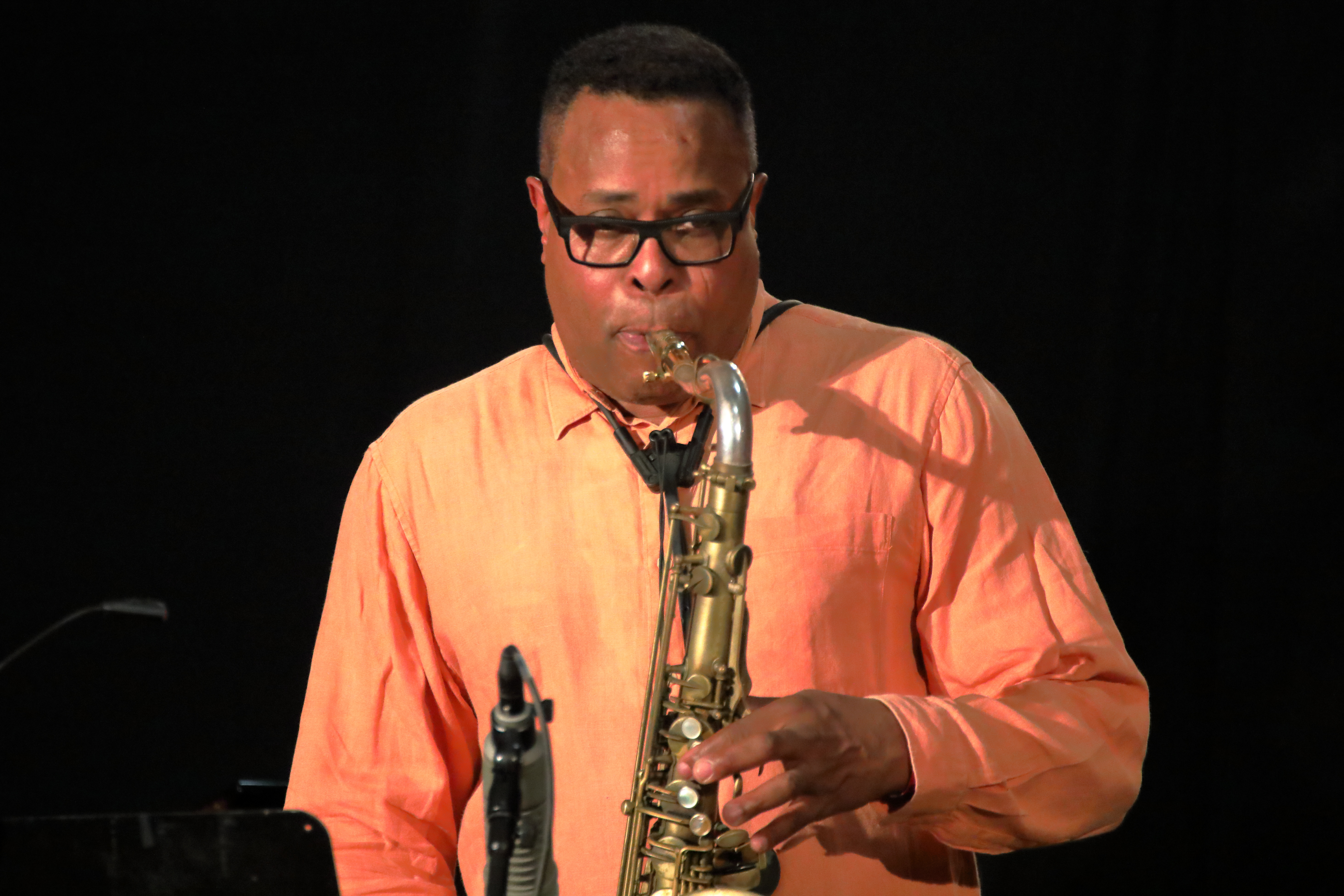 Saxophone player Jean Toussaint with his project Jean Toussaint Allstar Sextet performs Brother Raymond at INNtöne Jazzfestival 2019.